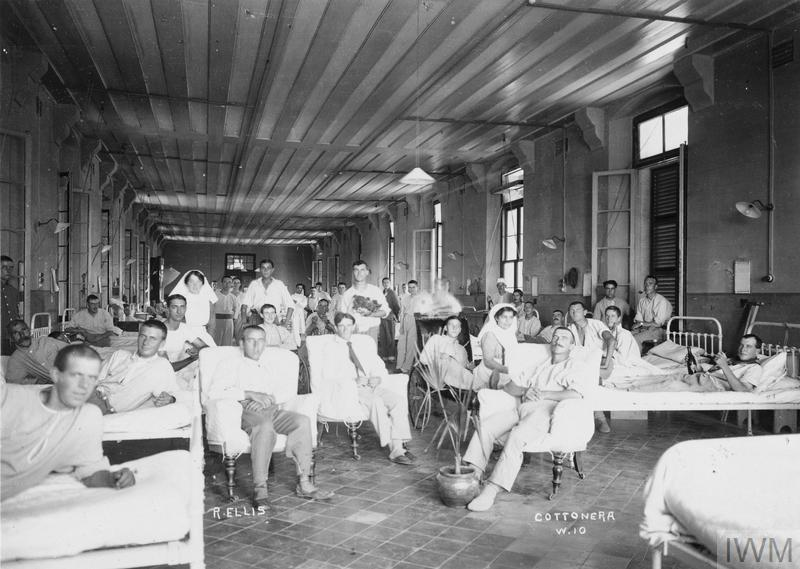 MILITARY HOSPITALS ON MALTA 1914-1918 Cottonera Hospital Ward 10.